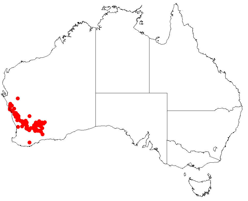 Hakea platysperma Occurrence data downloaded from Australasian Virtual Herbarium on 22 November 2018 using